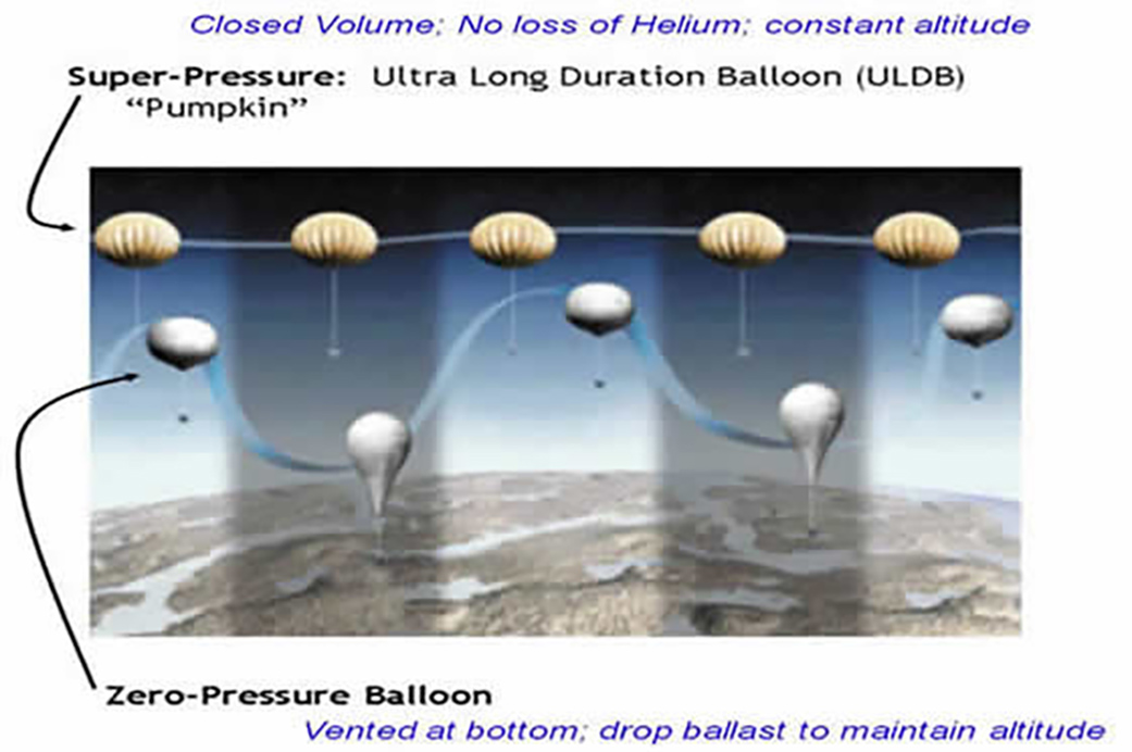 Flight profile of Super-Pressure Balloons versus Zero-Pressure Balloons.